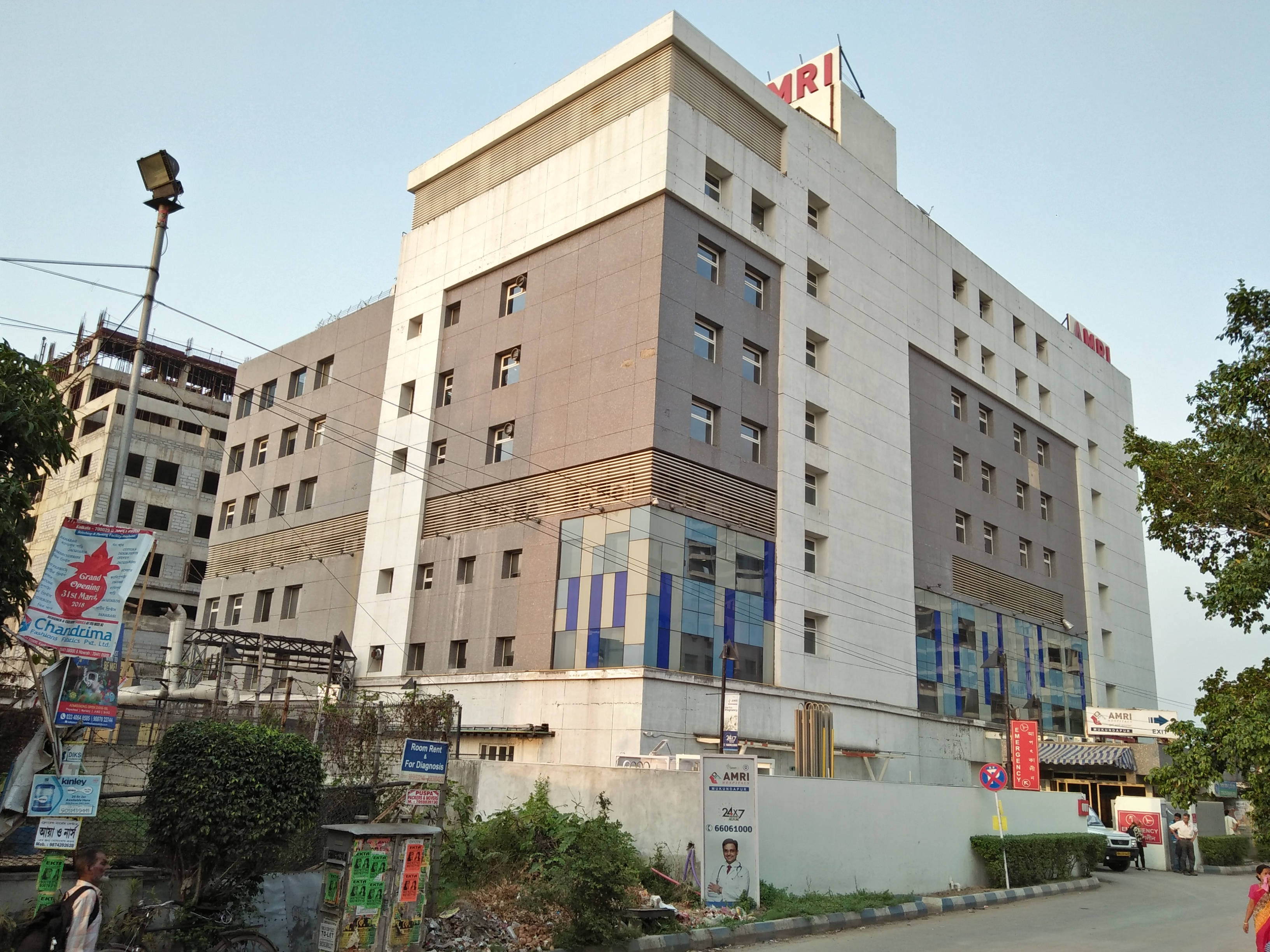 Photographed in Greater Kolkata.